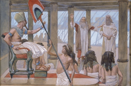 Moses Speaks to Pharaoh, c. 1896-1902, by James Jacques Joseph Tissot (French, 1836-1902), gouache on board, 7 7/16 x 11 1/4 in. (18.9 x 28.6 cm), at the Jewish Museum, New York